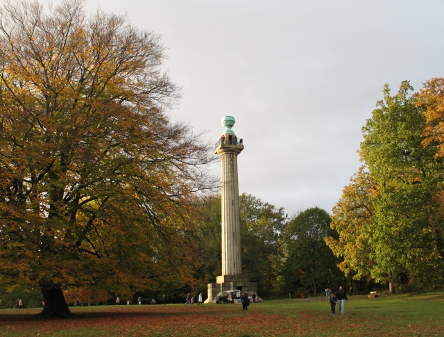 The Bridgewater Monument. The Bridgewater Monument is a tower on the Ashridge estate, Hertfordshire, built in 1832 in memory of Francis Egerton, 3rd Duke of Bridgewater, "the father of inland navigation". It is 108 feet (33 m) tall, with 170 steps inside, designed by Sir Jeffry Wyattville in a Doric style. It overlooks the village of Aldbury and the Grand Union Canal. See also . . . 1561089, 1561096, 1561098, 1561100, 1561103, 1561117